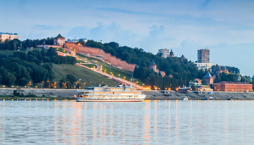 View on Nizhny Novgorod kremlin, Dyatlov hills and Chkalov stairs